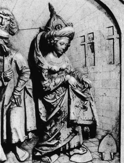 This bas-relief from Bamberg Cathedral depicts the trial by ordeal of the Holy Roman Emperor Heinrich II's wife, Kunigunde. After being accussed of adultery she proved her innocence by walking over red-hot ploughshares.